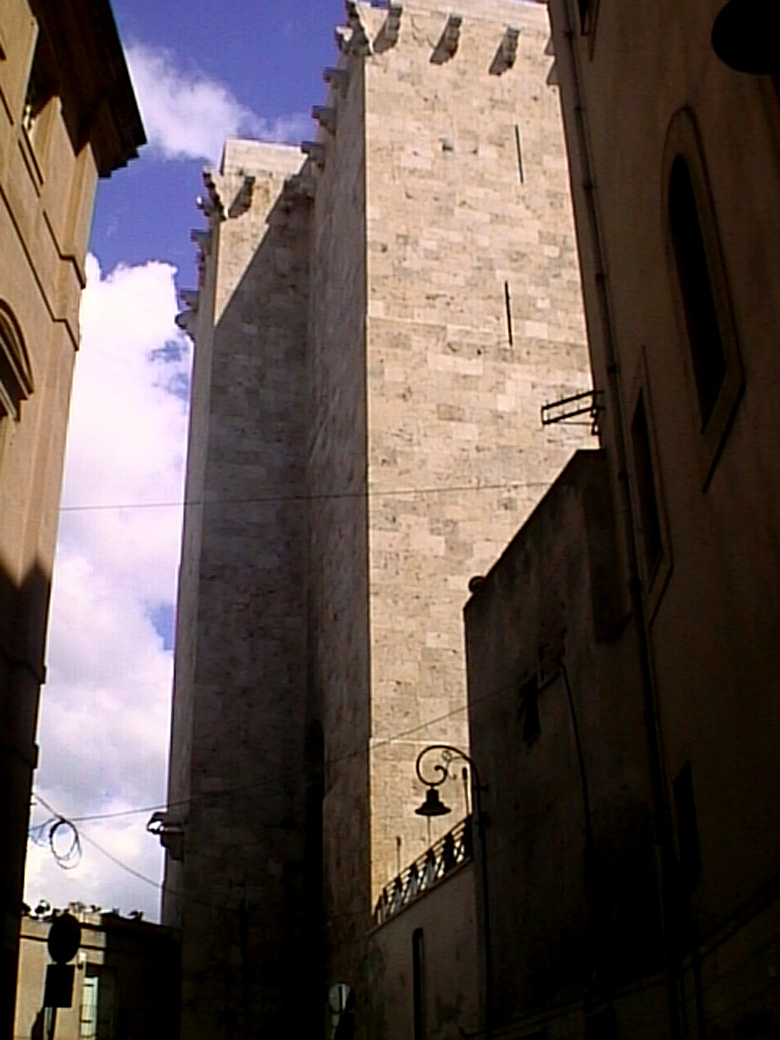 Torre dell'Elefante (Tower of the Elefant) as seen from via dell'Università, Cagliari, Sardinia, Italy.